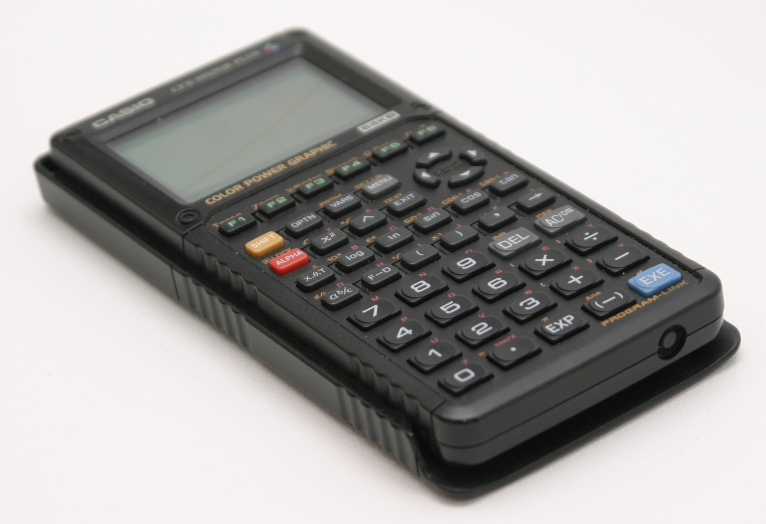 Graphing calculator